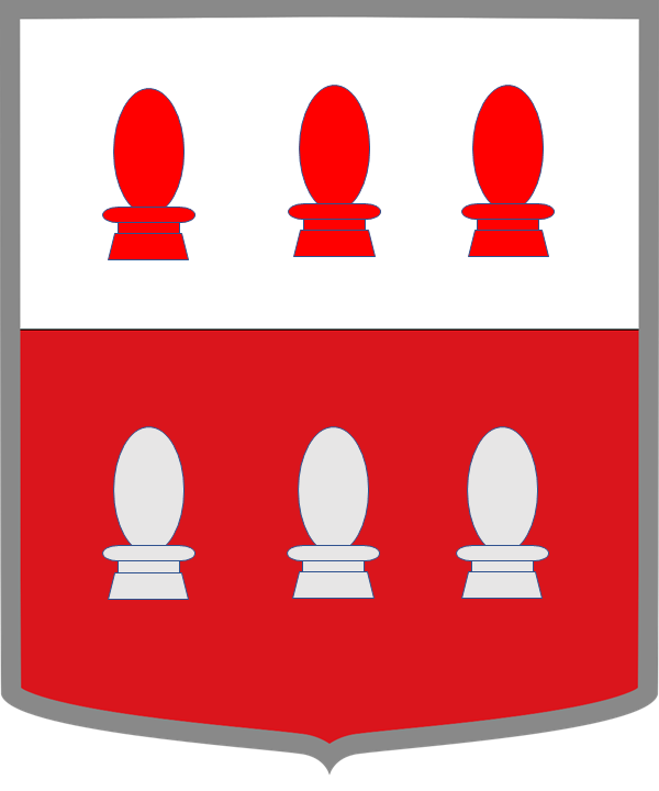 Arms of Zusti Giusti family